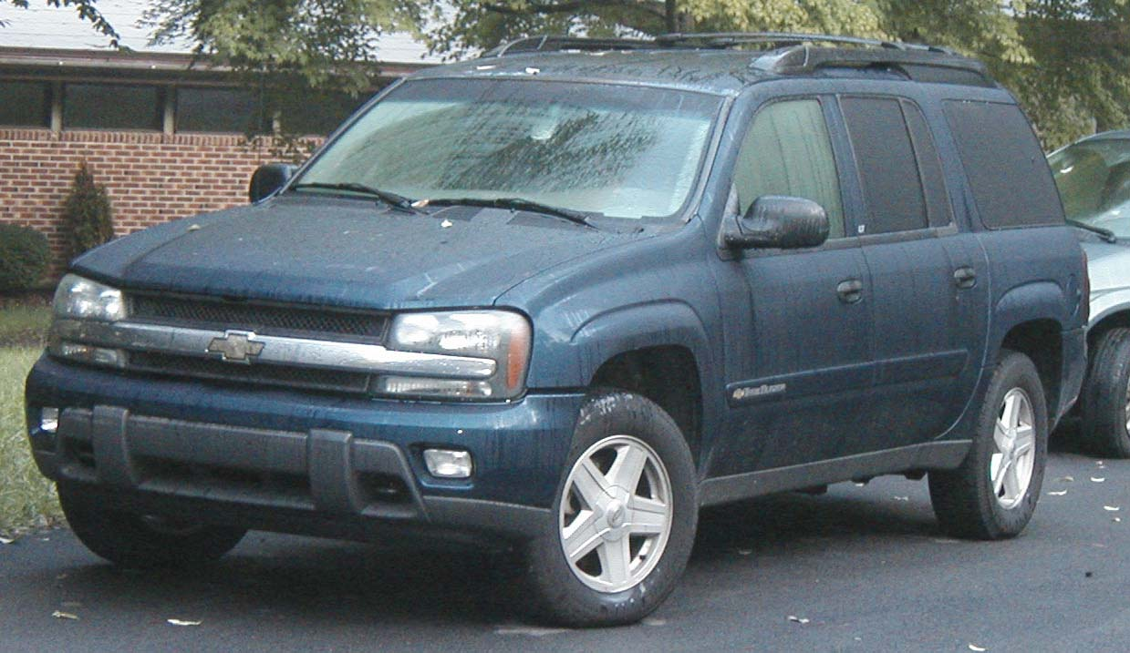 2003-2005 Chevrolet TrailBlazer EXT LT photographed in USA.